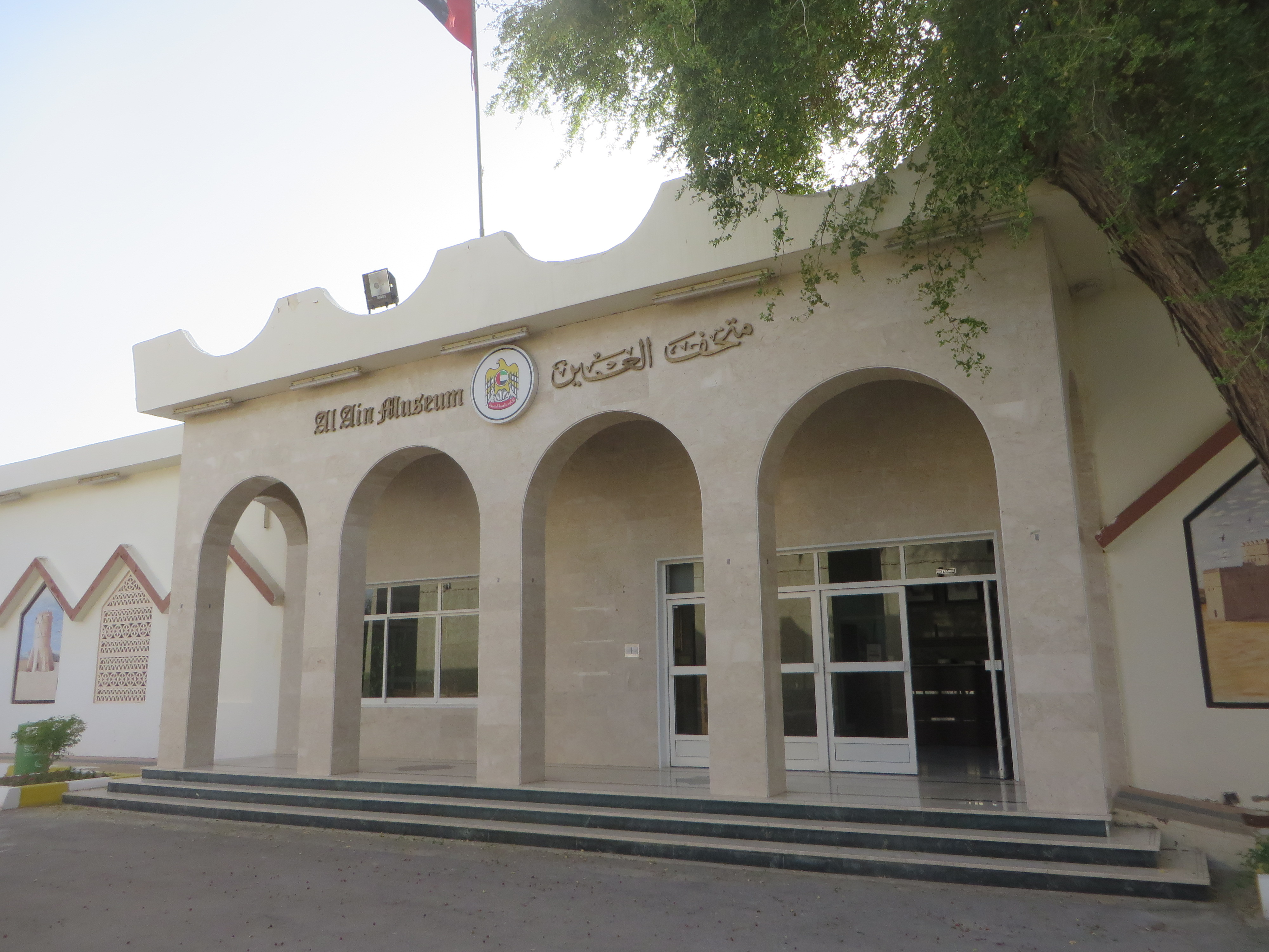 Entrance to the main museum building at Al Ain Museum, Al Ain, Abu Dhabi, UAE.